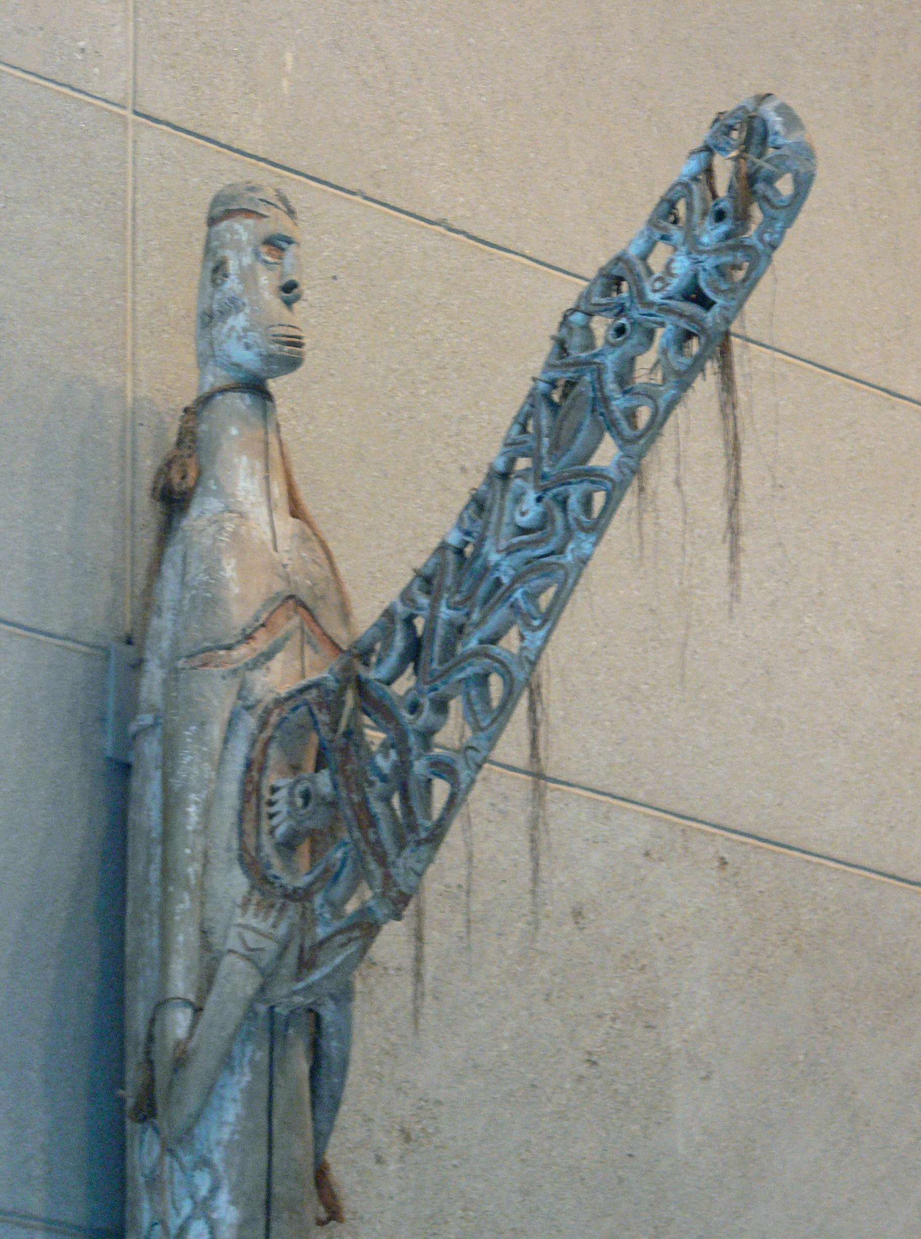 Ceremonila pole („mbis“); ancestor figures; Melanesia, Irian Jaya (Indonesian New Guinea), Asmar people, c. 1930-1940; Wood, paint and fiber Dallas Museum of Art, Dallas, Texas; The Roberta Coke Camp Fund, object number 1974.51